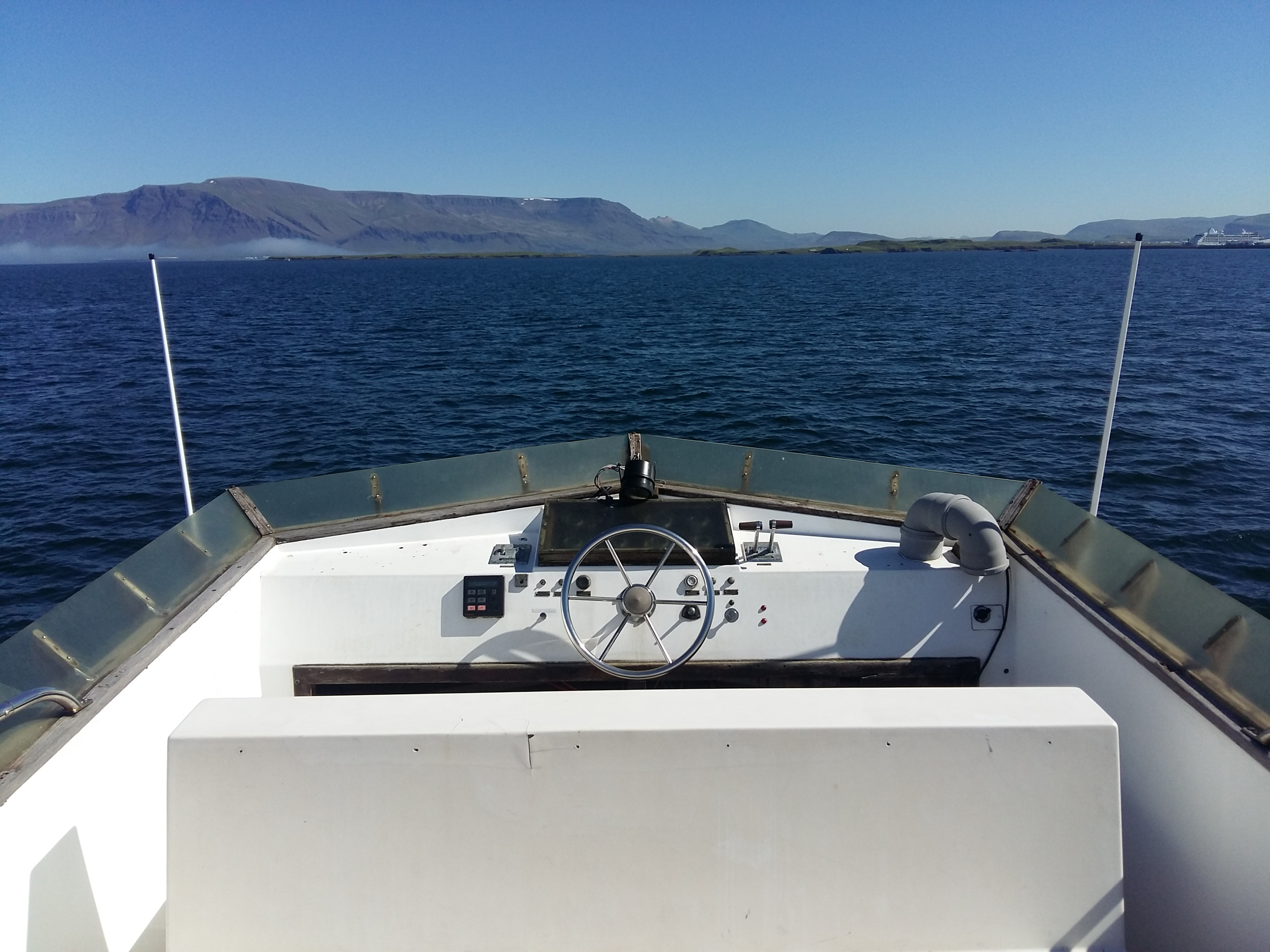 Ferry to the Viðey island Visible: Viðey island and Esja mountain